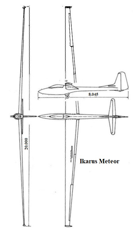 Yugoslav Glider IKARUS Meteor